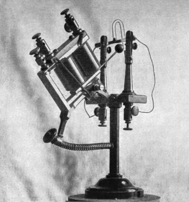 A coherer, a crude radio detector used in the first radio receivers from about 1895 to 1906 during the wireless telegraphy era. This example was built by radio researcher Emile Guarini Foresio. It is a glass tube (right) containing metal powder between two electrodes. When a radio signal is applied between the electrodes, the metal powder coheres (clumps together) causing the tube to conduct electricity. The coherer is attached to a DC circuit (not shown) which makes a mark on a paper tape to record the Morse code radio message. Because the coherer remained in its conducting state after the radio wave stopped, the device includes a "decoherer" or "tapper" (left) which uses an electromagnet-activated arm to tap the coherer, agitating the powder, to return the device to its nonconducting state in preparation to receive another radio signal.